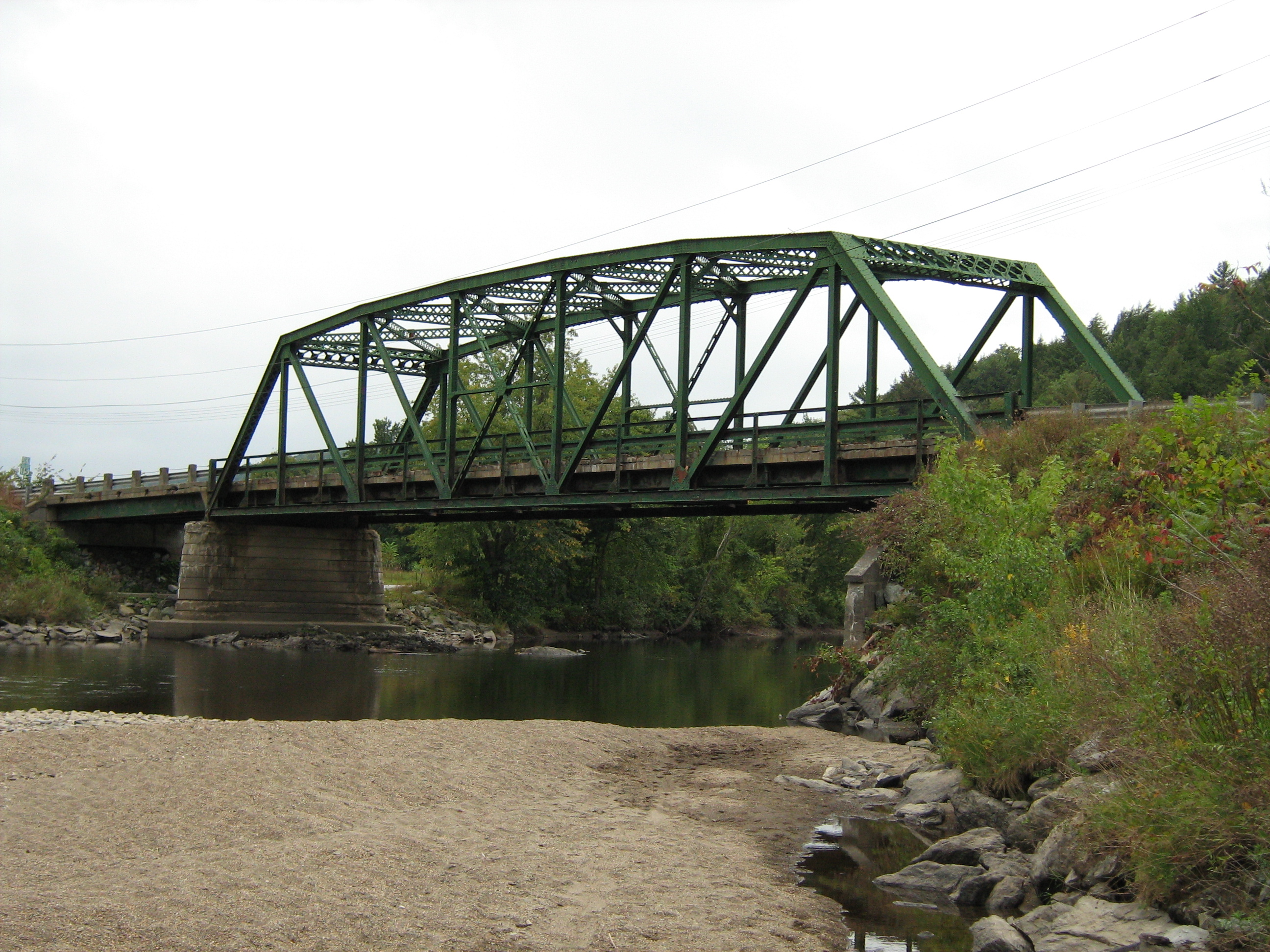 Jeffersonville Bridge, Cambridge, Vermont. Through truss bridge spanning Lamoille River on Route 108. Built by American Bridge Company.